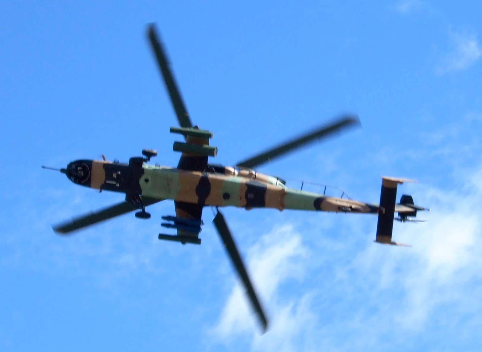 Australian Army's Eurocopter Tiger - picture took at Avalon airshow 2007